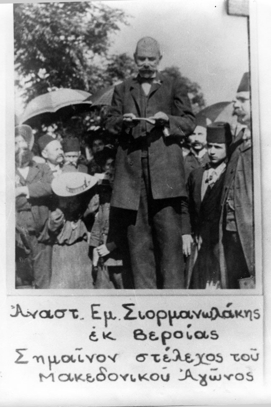 Greek revolutionary Anastasios Siormanolakis